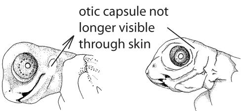 Standard Event System character depiction